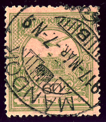 Kingdom of Hungary 60 fillér stamp, green on rose paper (SG185) issue 1913, cancelled at MÁNDOK (eastern Hungary) in 1917.